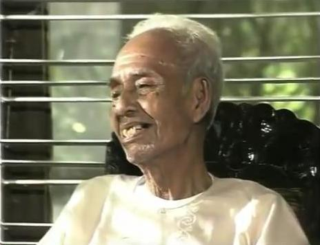 Suman Hs in Lontar Foundation film on Suman Hs (at 02.42)